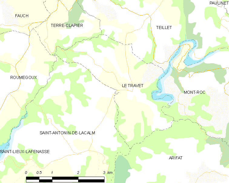 Map of French municipality Le Travet